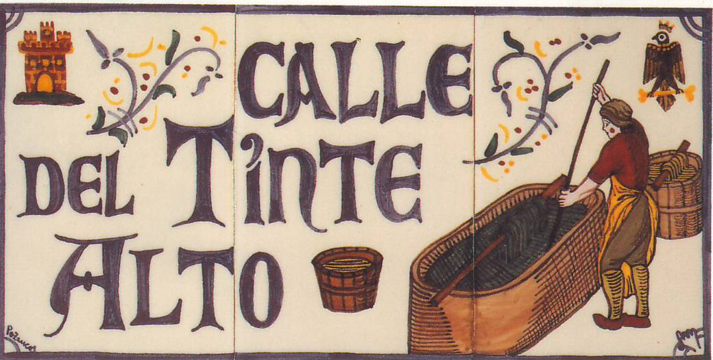 The high dye in Sigüenza (Guadalajara Spain) Street. The Alfar del Monte (Pozancos) ceramics.